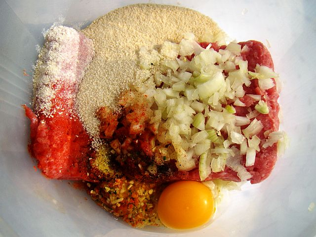 meatballs ingredients